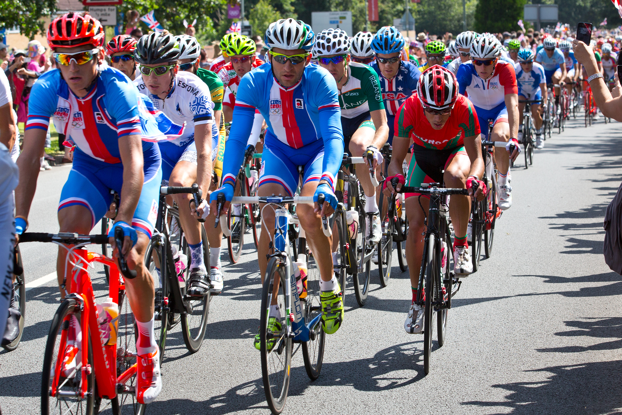 Both Czech participants Roman Kreuziger (left) and Jan Bárta (middle) about one hour into men's road race at the 2012 Summer Olympics. Byfleet, Surrey, the second group 5 minutes behind the first group.